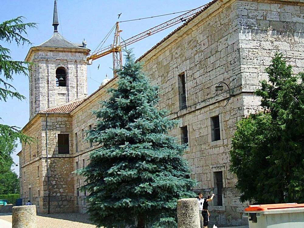 Monasterio de San Isidro de Dueñas (La Trapa), en Venta de Baños